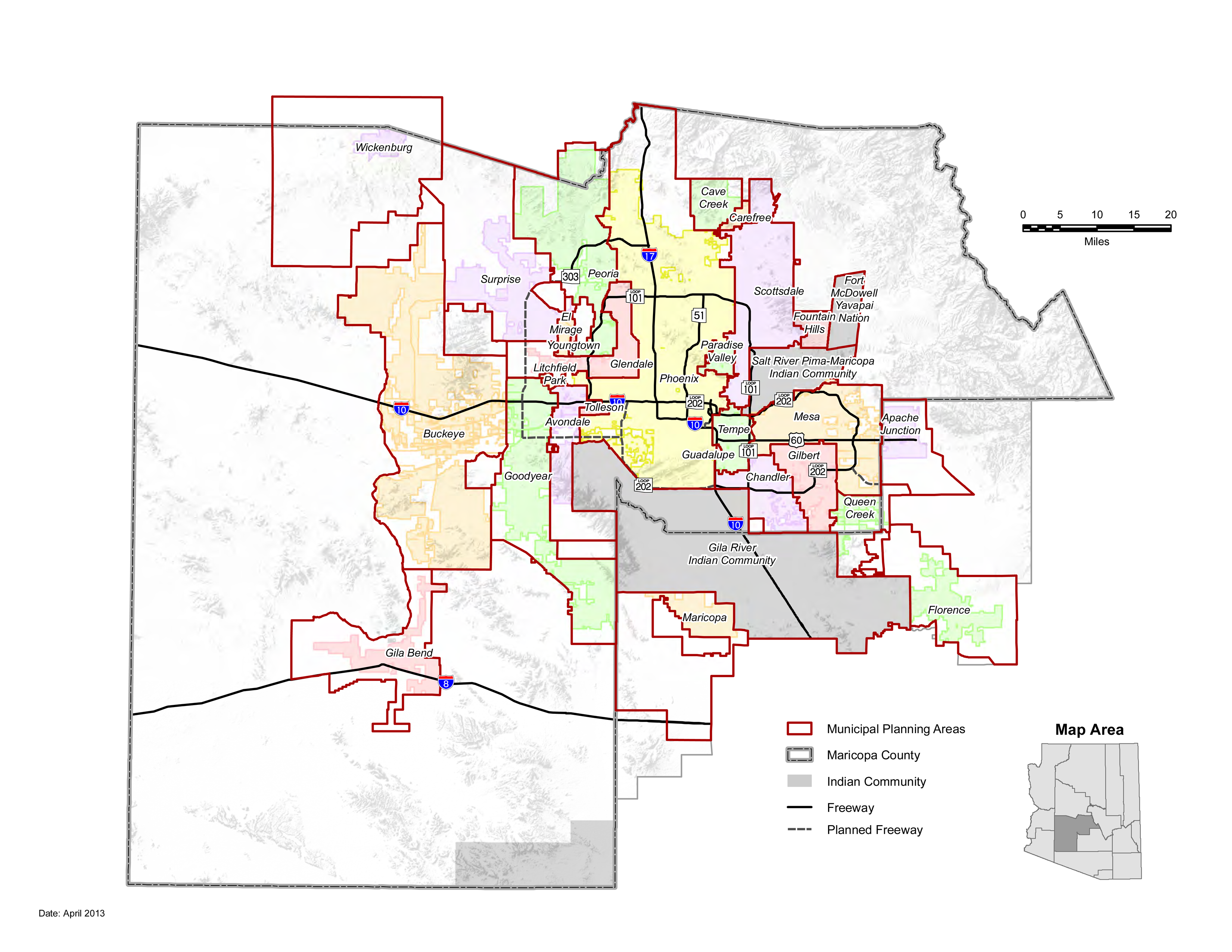 A Map of the Maricopa Association of Governments Municipal Planning Areas and Incorporated Areas